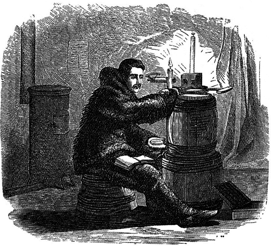 August Sonntag (1832-1860), astronomer of the 2nd Grinnell expedition 1853-1855 in the observatory